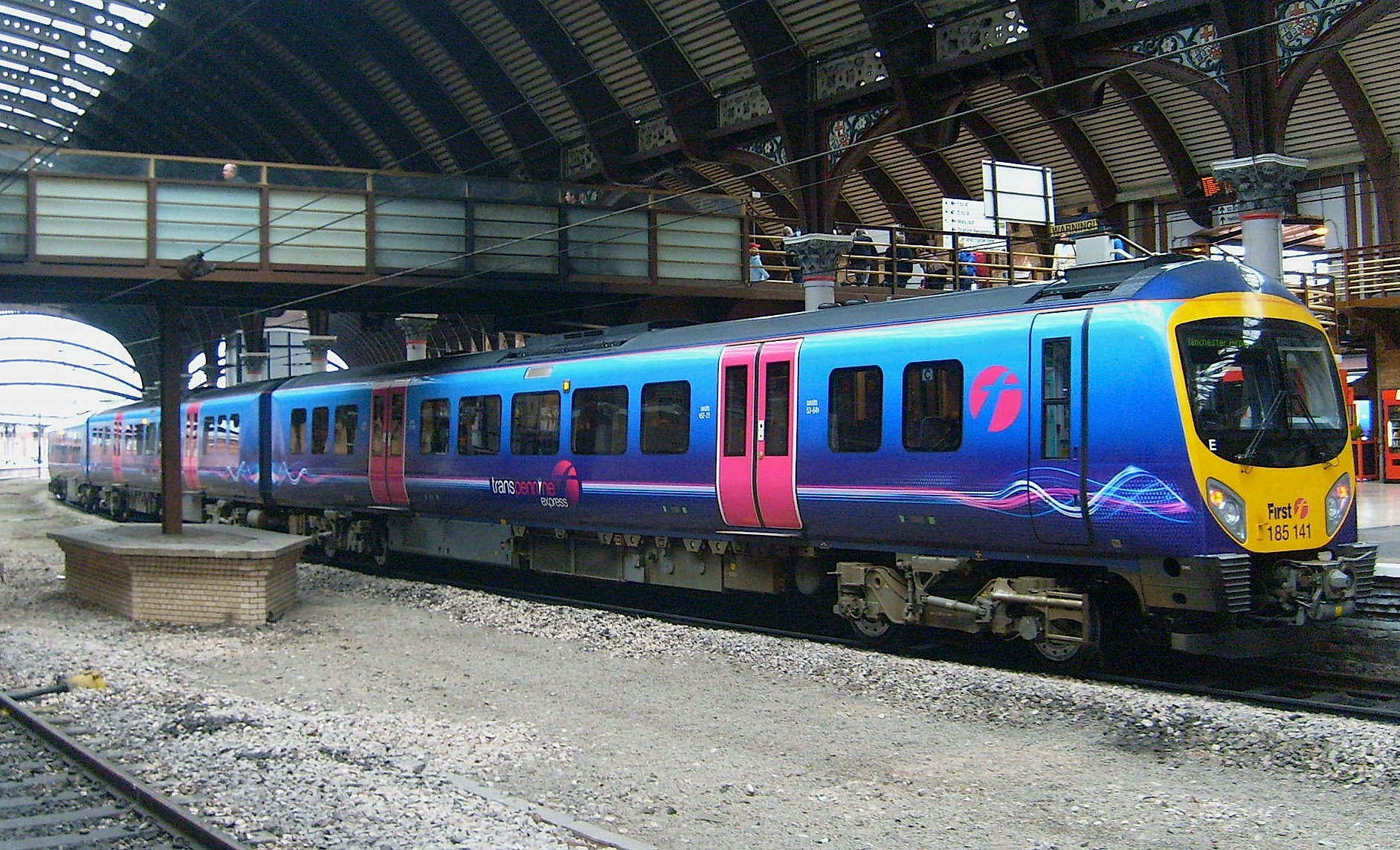 First Transpenninexpress Class 185 No. 185141 at York